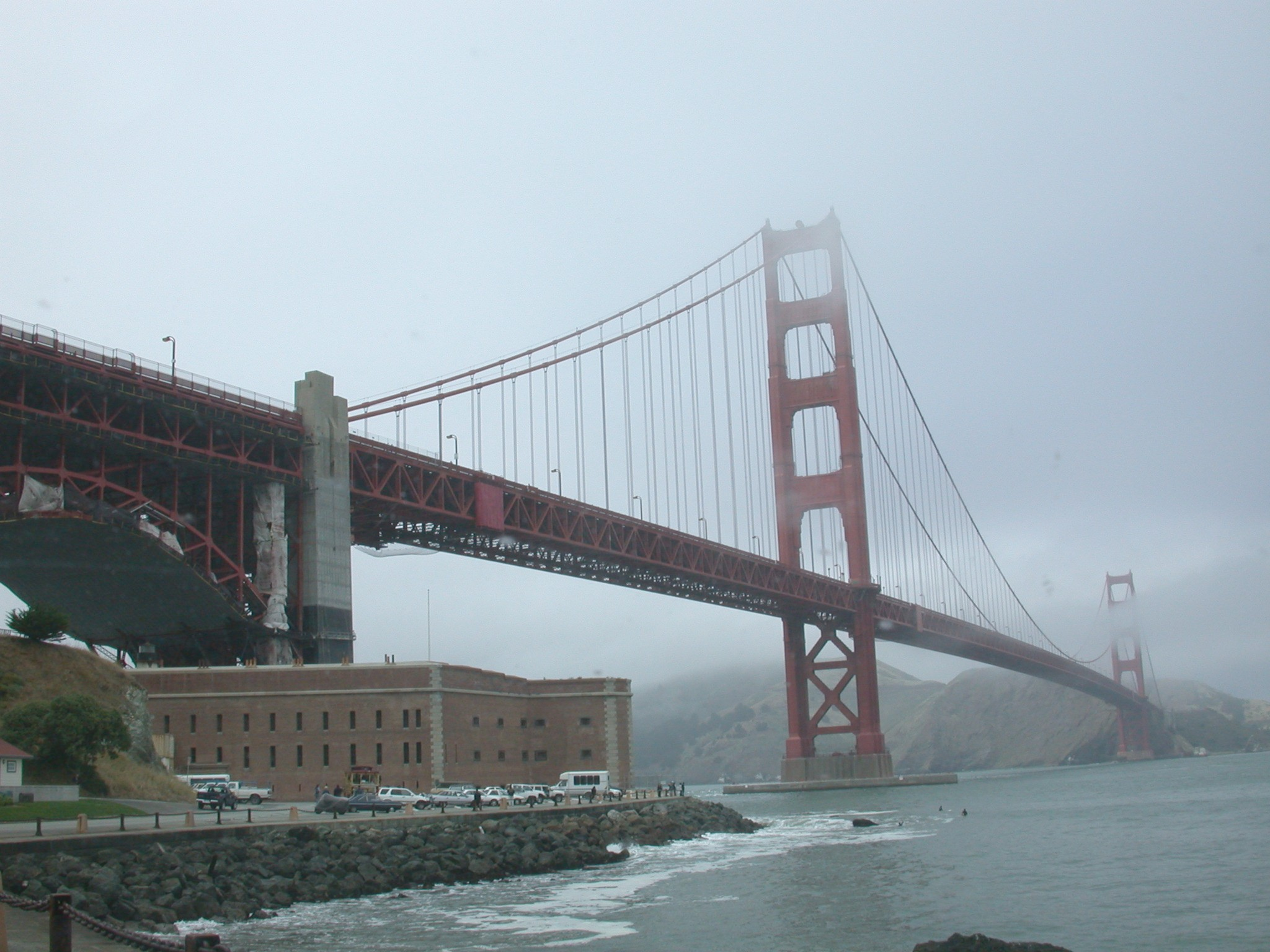 Photograph of Fort Point, under the Golden Gate Bridge, taken in June 2005 by Dvortygirl, San Francisco, California.